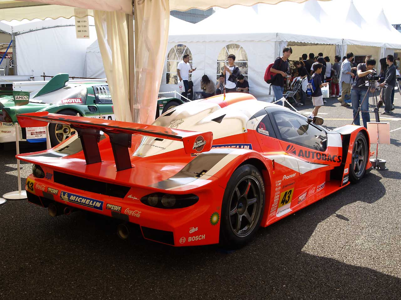 ARTA Garaiya version 2008 from rear. Shown at Motor Sport Japan 2008